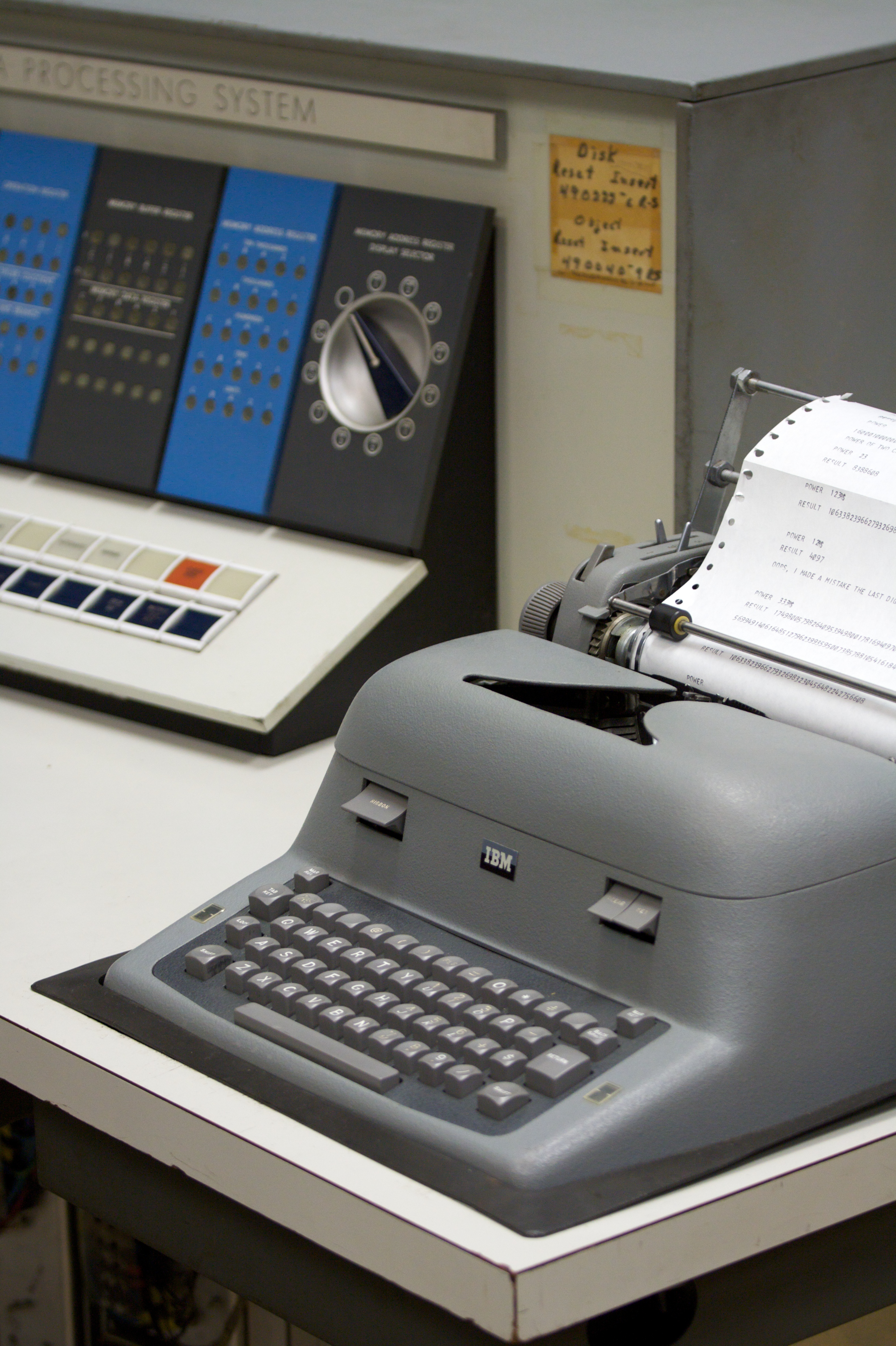 Console typewriter on an IBM 1620